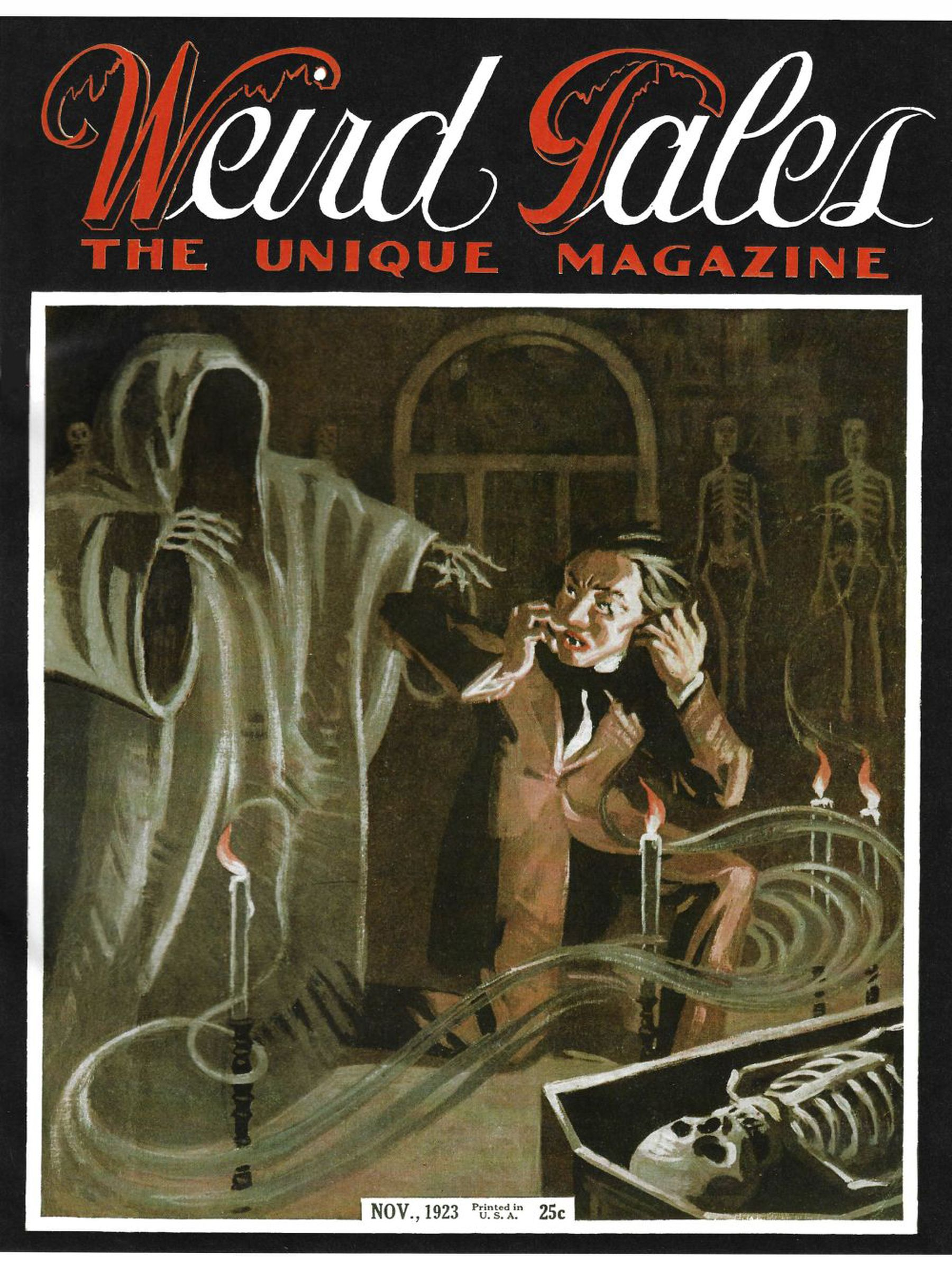 Weird Tales, November 1923